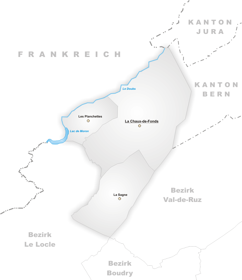 Municipalities of District La Chaux-de-Fonts